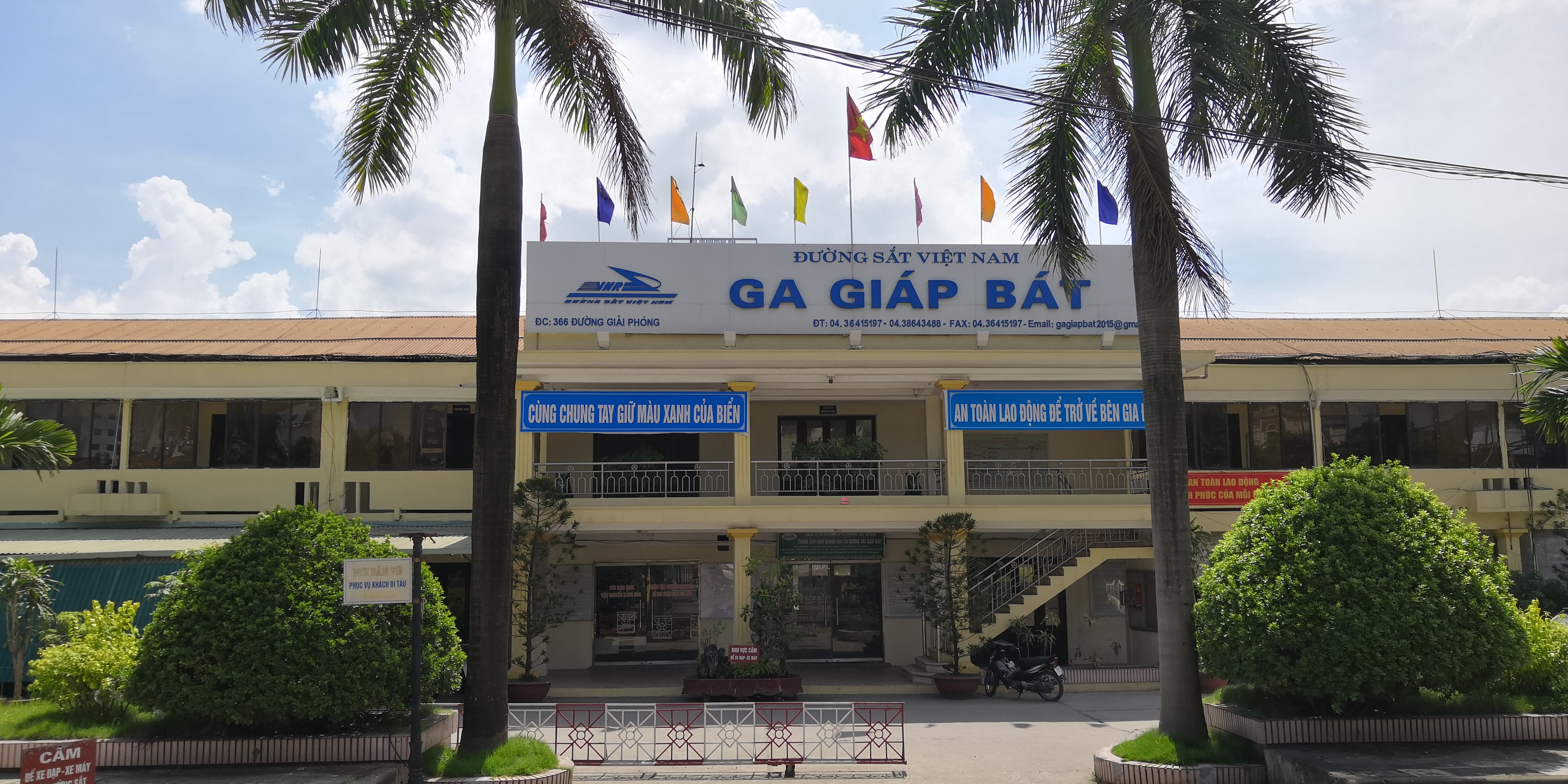 Giap Bat Railway Station (Jun 20, 2018)